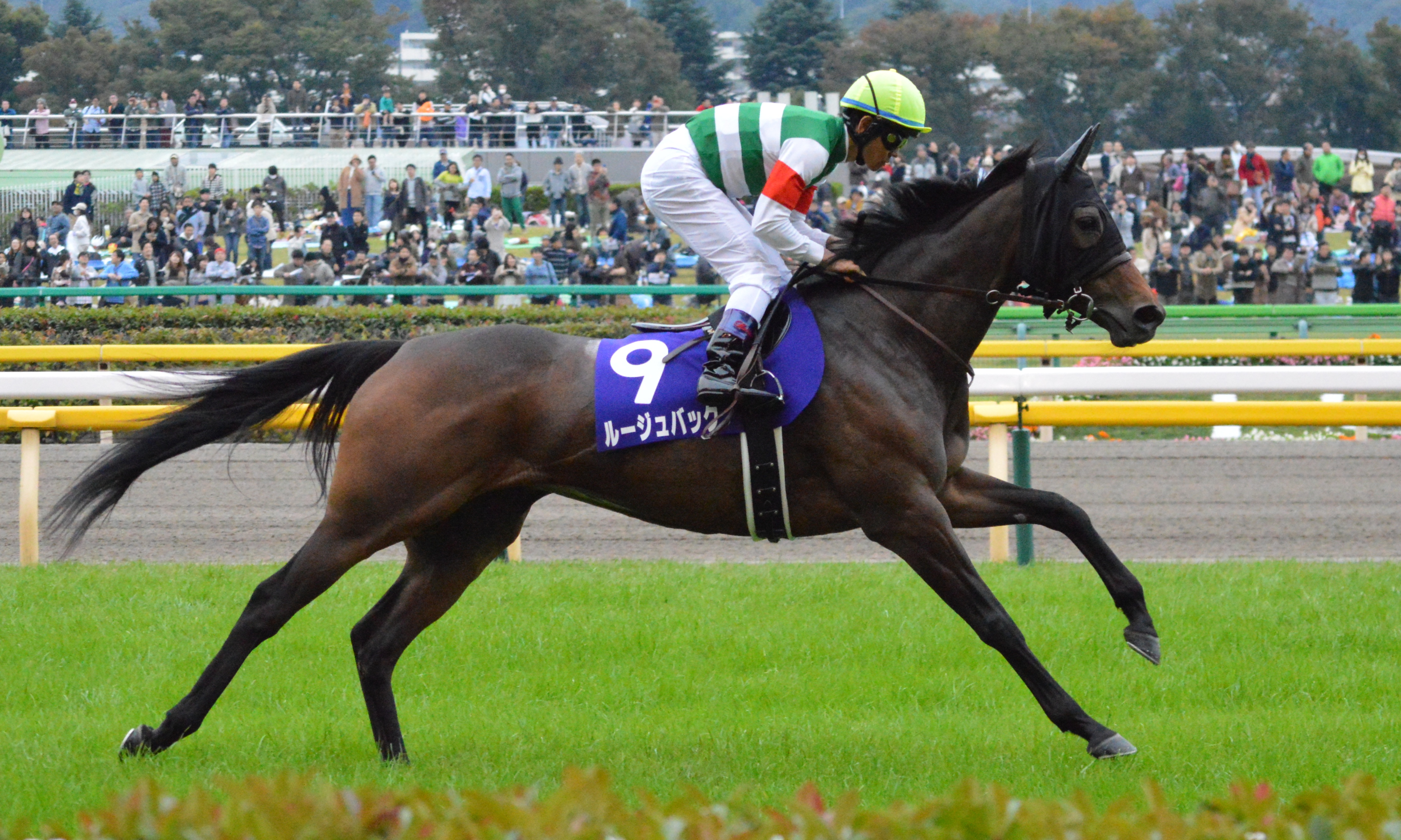 Japanese race horse Rouge Buck at Tokyo racecourse. Tokyo (JPN) 30 Oct 2016 Tenno Sho (Autumn) (Grade 1) (3yo+) (Turf) 1m2f Firm RankHorse NameOddsAgeWgtTrainerJockey1stMaurice (JPN)26/10FH59-2Noriyuki HoriRyan Moore2ndReal steel (JPN)12/1C49-2Yoshito YahagiMirco Demuro3rdStaphanos (JPN)102/10H59-2Hideaki FujiwaraYuga Kawada4th - 6th/omission7thRouge Buck (JPN)41/10F48-11Masahiro OotakeKeita Tosaki